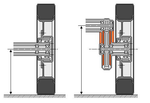 Axle adapters (gear box)